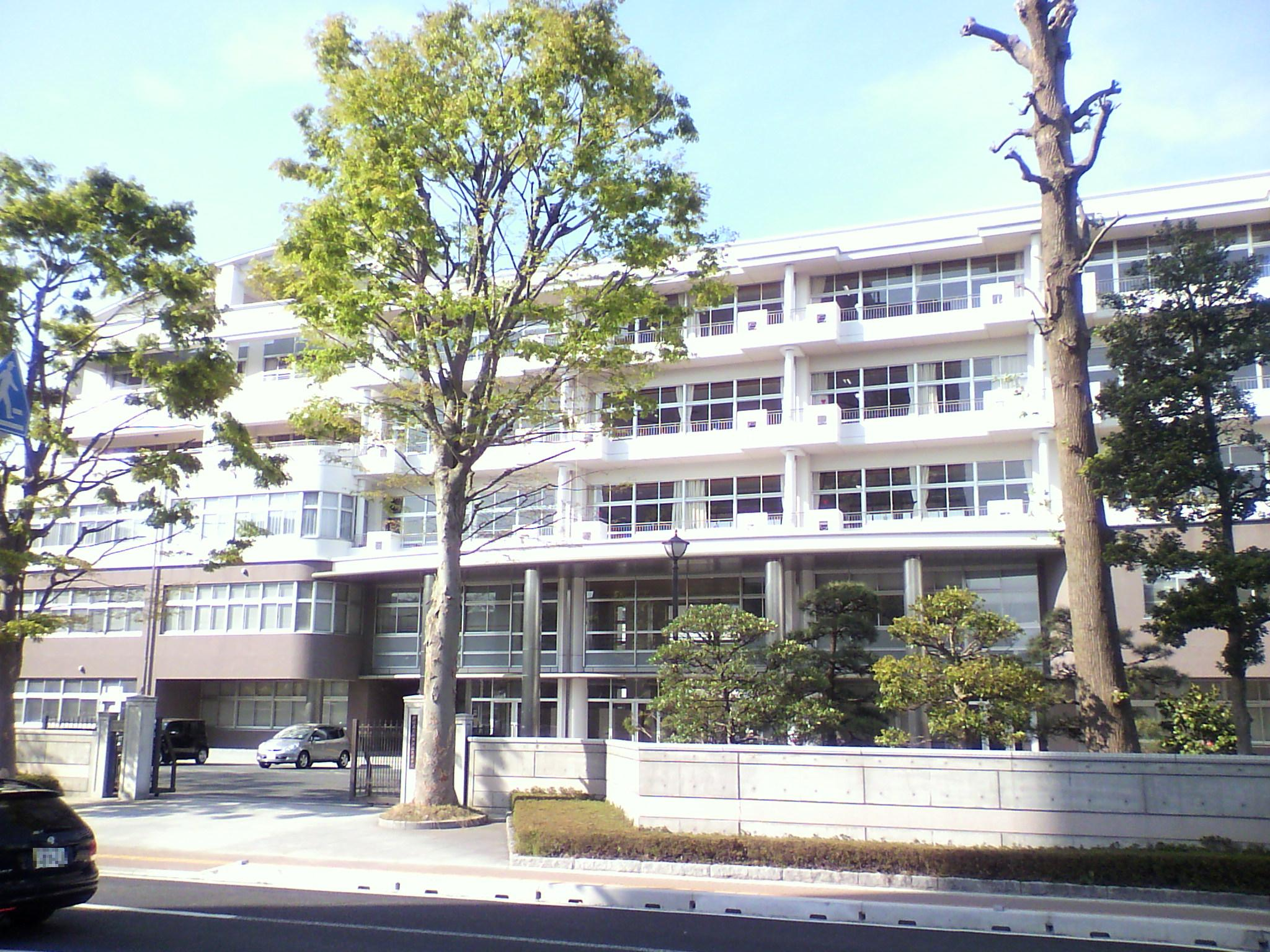 This is the Ibaraki prefectural Mito second high school, which is located in Mito, Ibaraki, Japan.